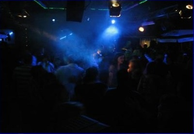 The Blaue Maus Diskothek, Rodewald, in full swing.